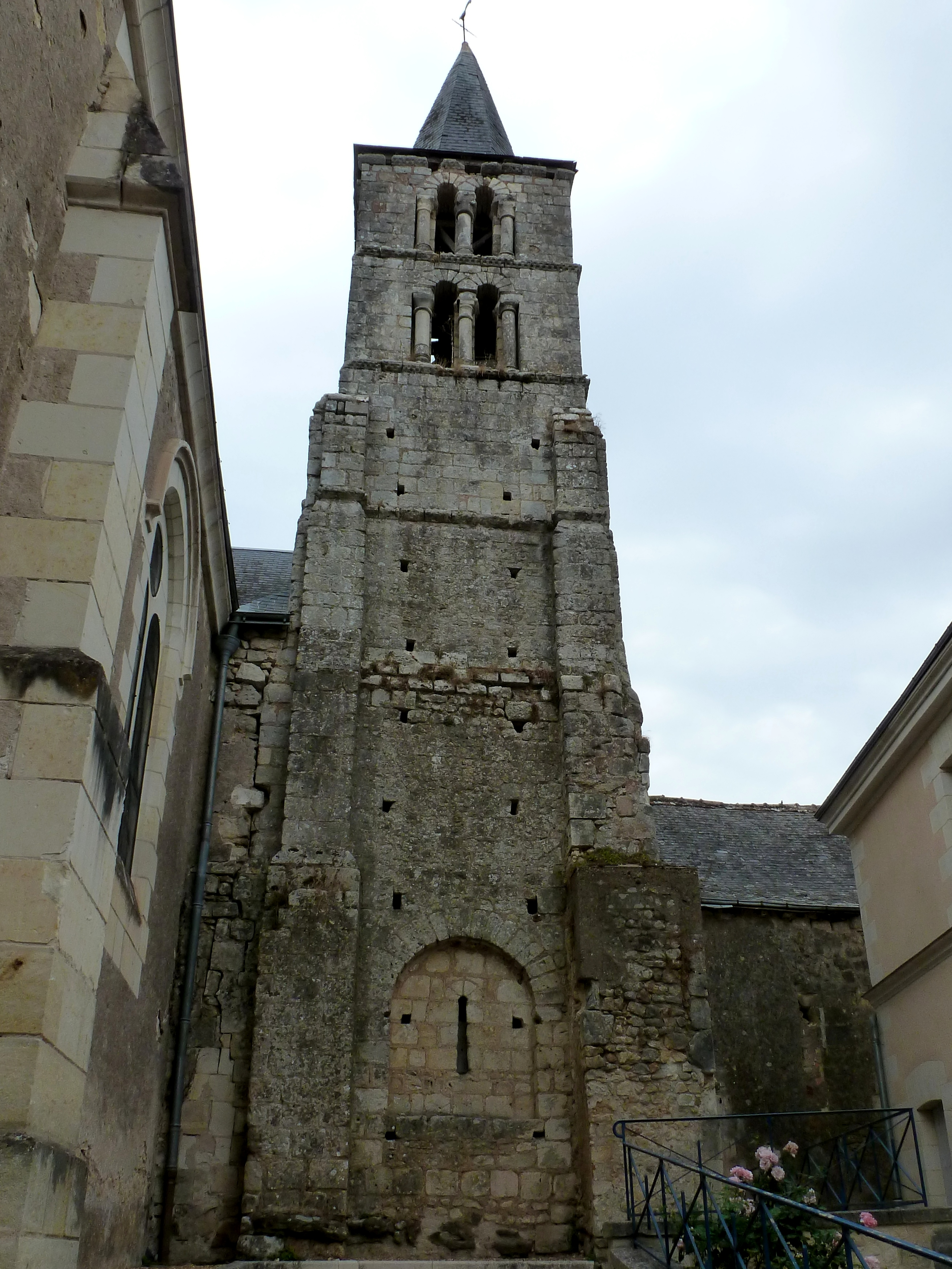 Bell tower of the old church of Saint-André in Villaines-les-Rochers.